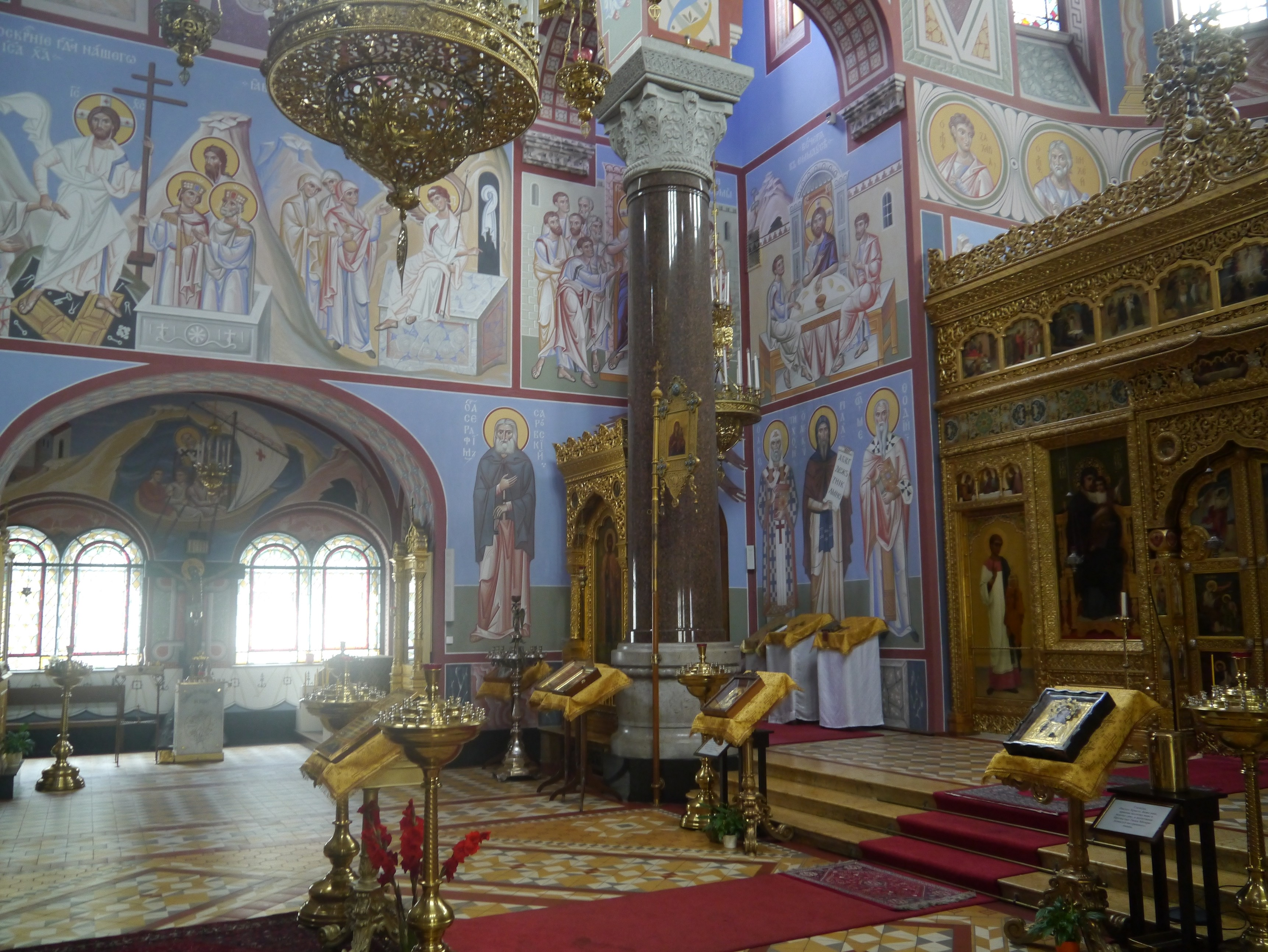 Interior of the russian orthodox Cathedral St. Nicholas, Vienna